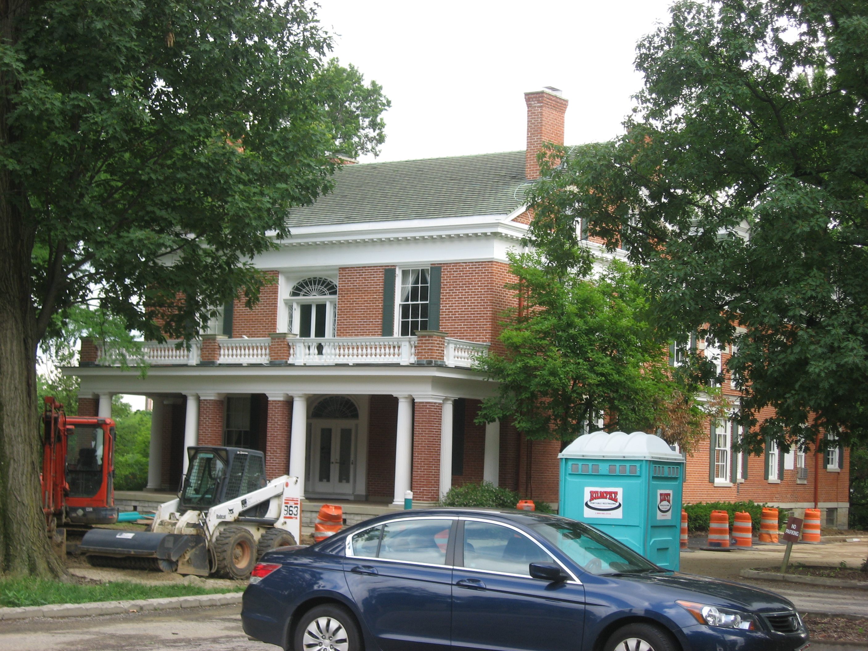 Front and western side of the Wilson-Gibson House, located at 425 Oak Street within the Hauck Botanical Gardens in Cincinnati, Ohio, United States. Built in 1860, it is listed on the National Register of Historic Places.